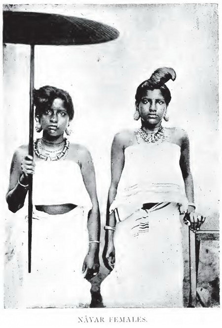 Nair women in traditional attire.